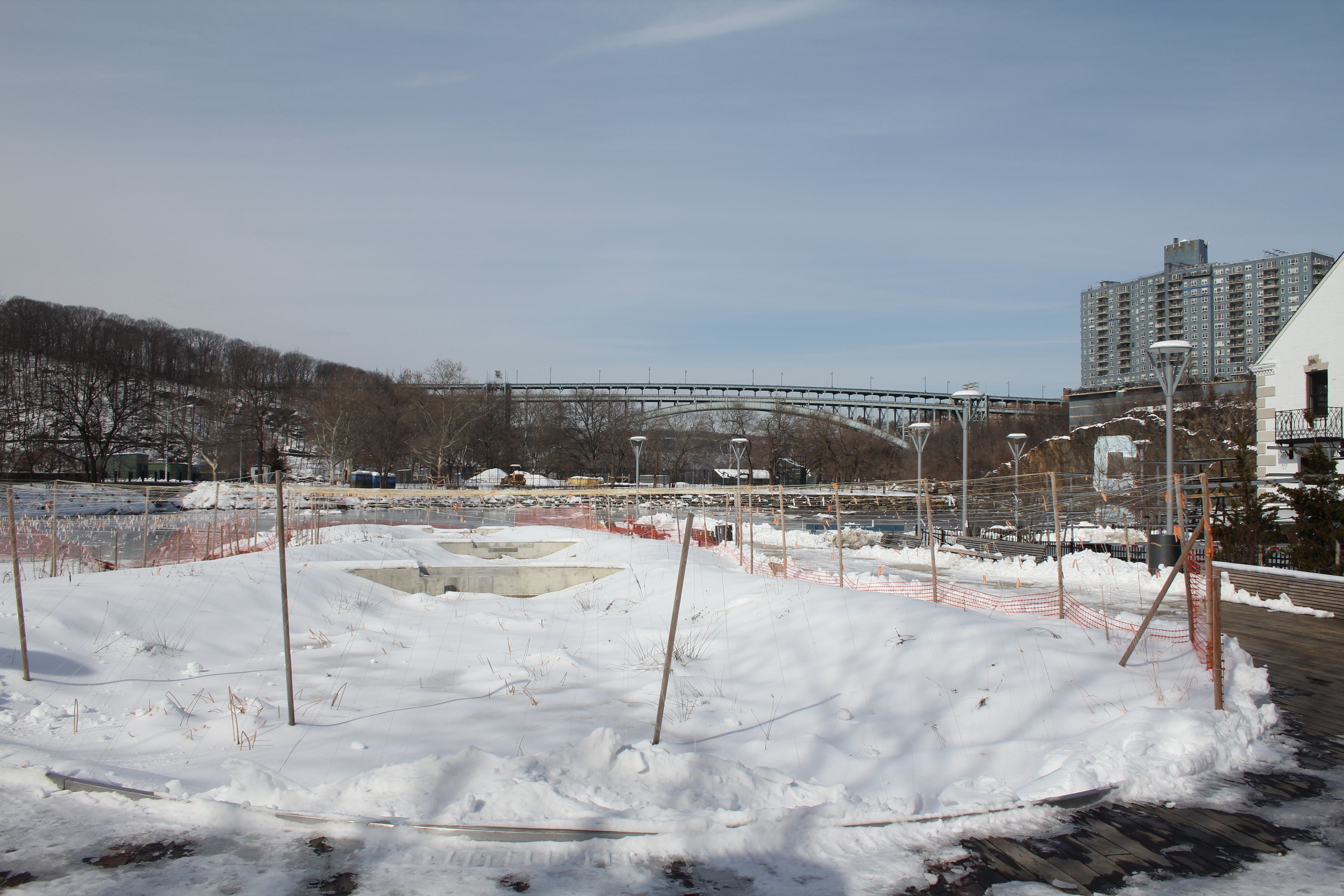 Muscota Marsh, a New York City park on the Spuyten Duyvil Creek near the northern tip of Manhattan Island. Inwood Hill Park, the Henry Hudson Bridge, and the Hudson River Palisades are in the background.